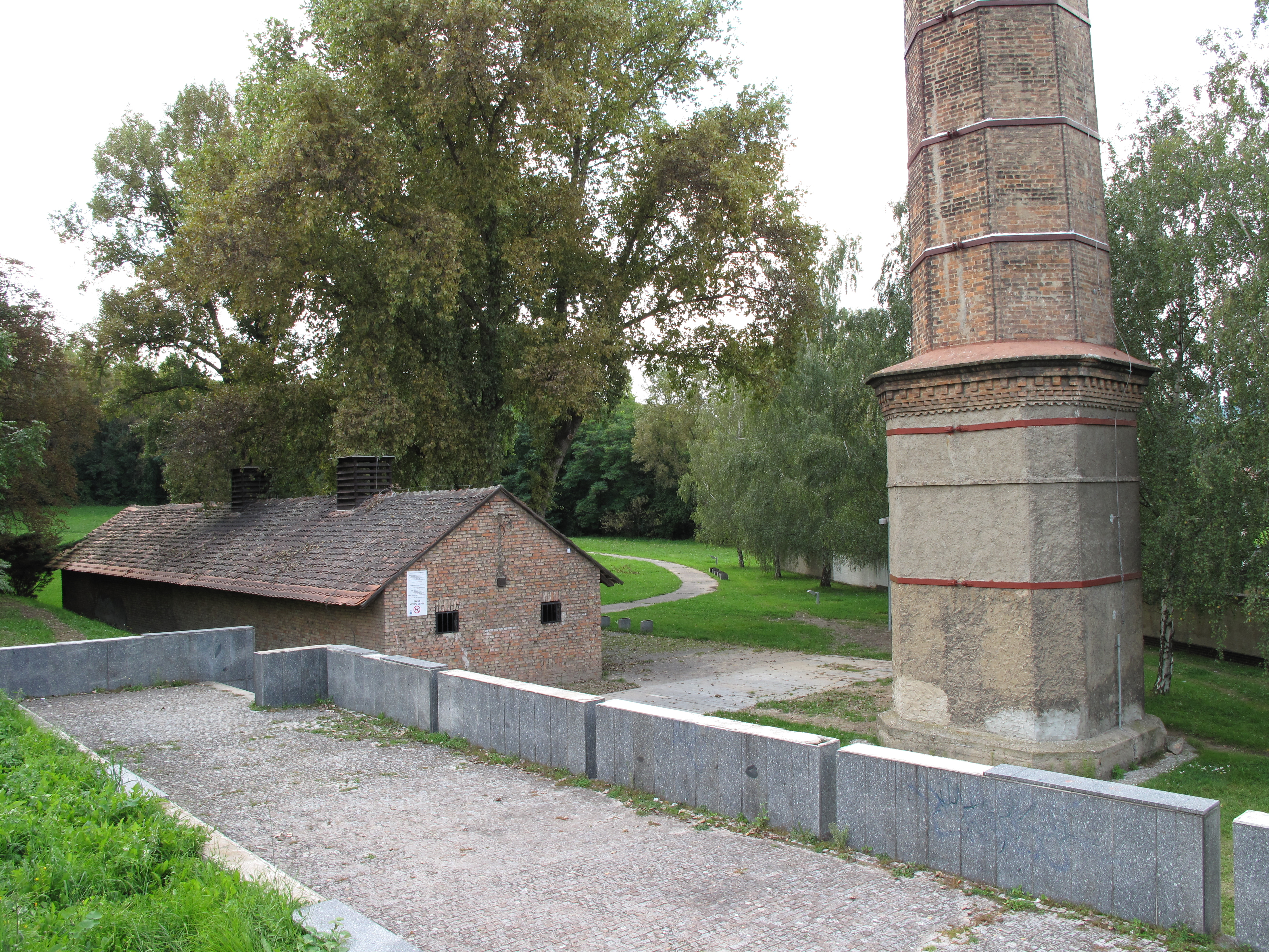 Chimney and crematory Richard in Litoměřice, Czech Republic. Today this memorial belongs to Terezín memorial.